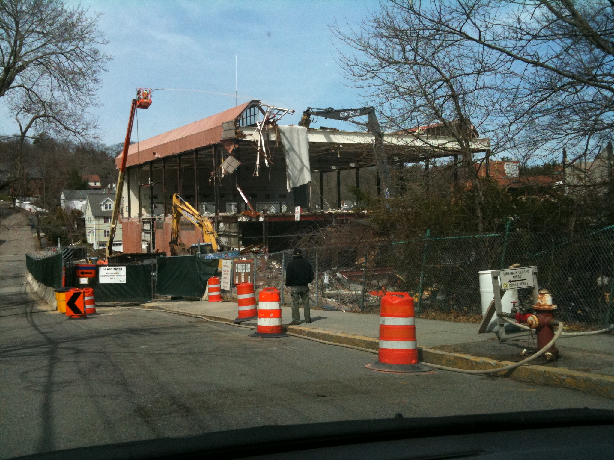 Demolition of old Newton North High School building in progress, viewed from Hull Street. The building was carefully dismantled due to widespread asbestos contamination.